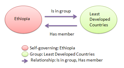 concept and instances